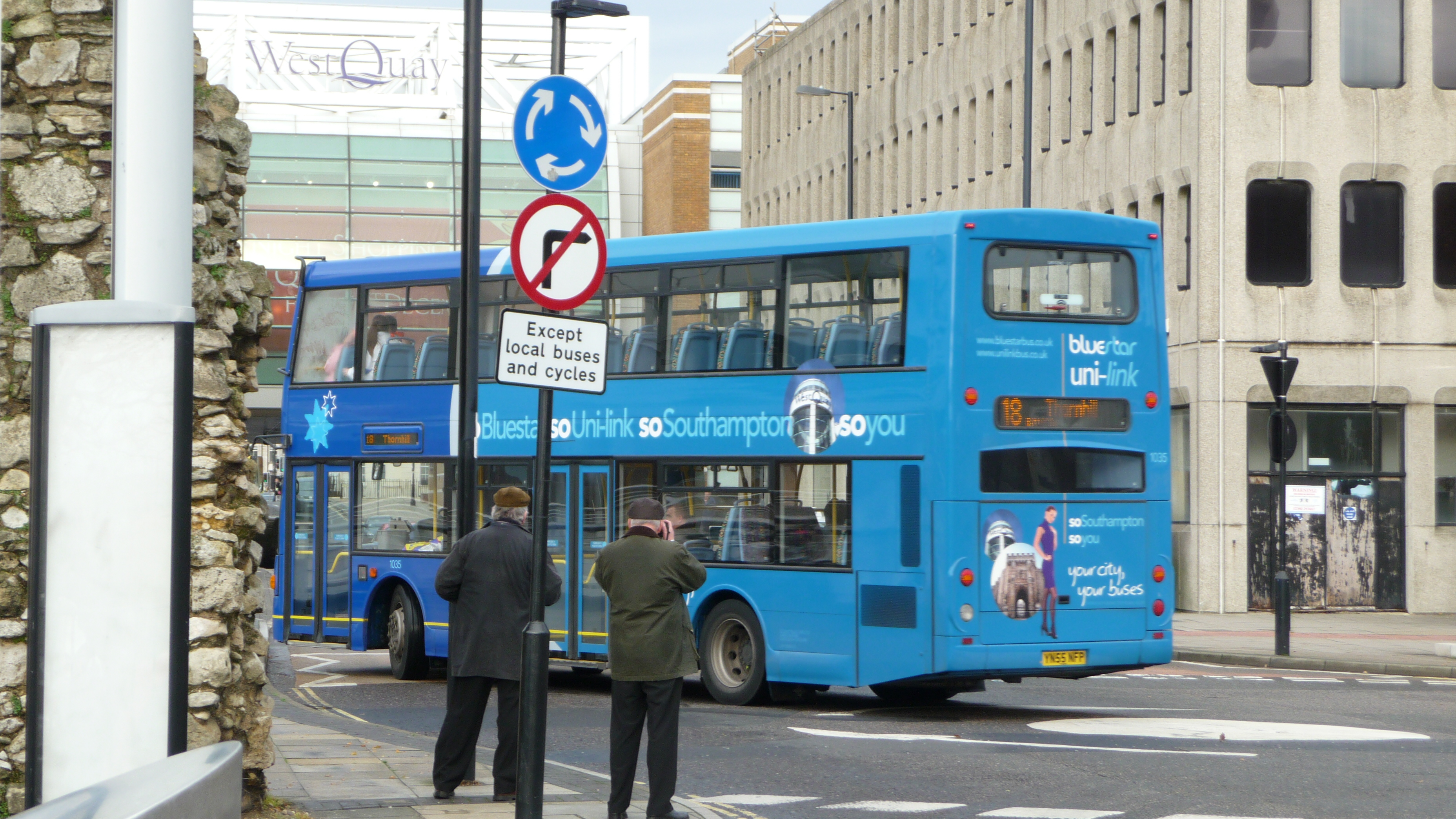 Bluestar 1035 (YN55 NFP), a Scania N94UD OmniDekka, in Bargate Street, Southampton, on route 18. This bus was acquired by Bluestar from Enterprise AOL, after they won the Uni-link contract from them. Unlike others, Bluestar have kept this bus in their fleet, and painted it in a hybrid Uni-link and Bluestar livery, so it can be used on all services, though it usually is on Bluestar services. Unfortunately I was photographing a Greyhound coach when this bus left, so I don't have a very good rear shot of it. And some fellow bus enthusiasts were closer than I was!